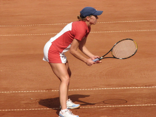 Biljana Pavlova(Allianz Cup 2008)